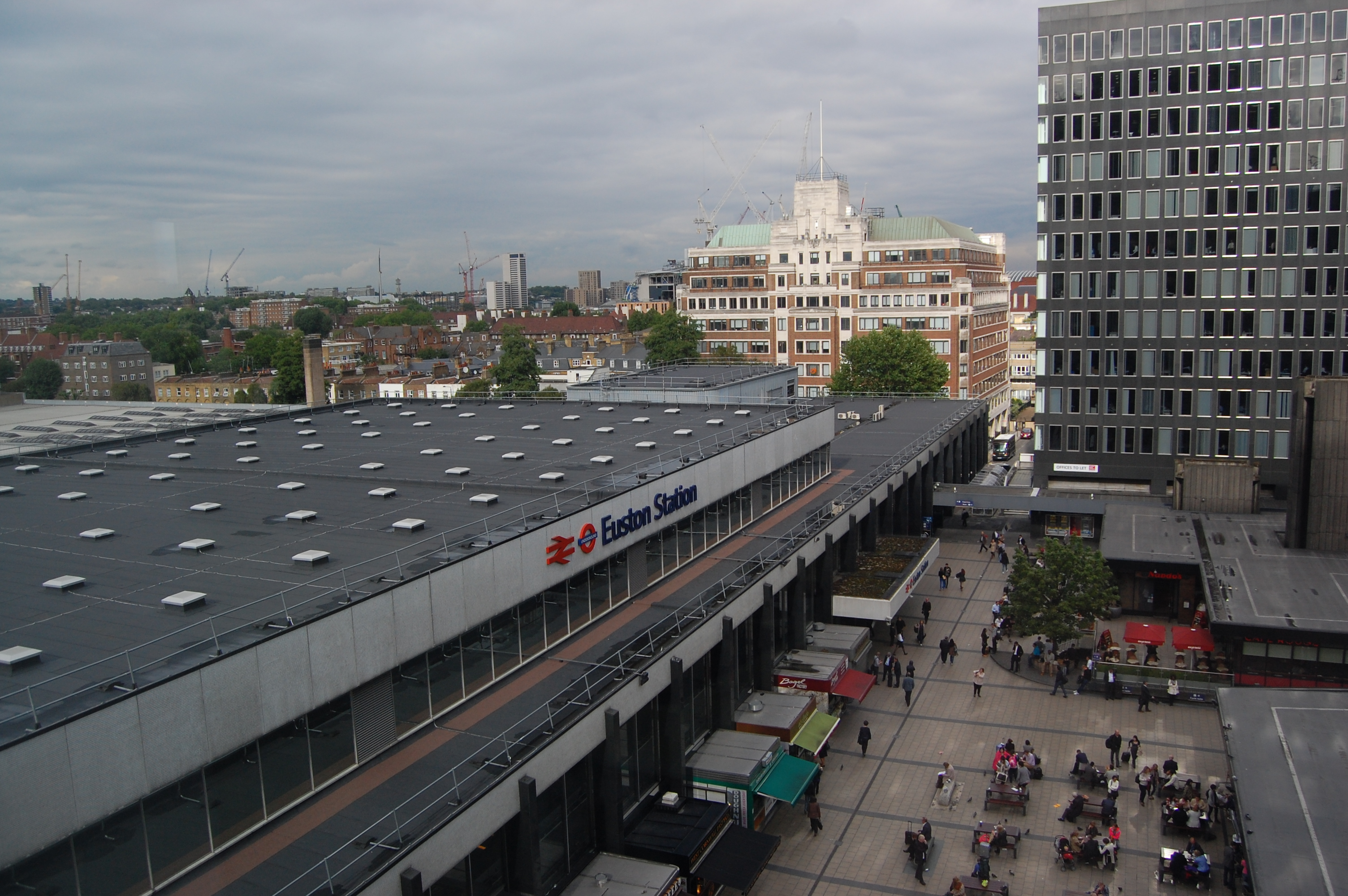 Euston railway station from the 5th floor of One Euston Square.